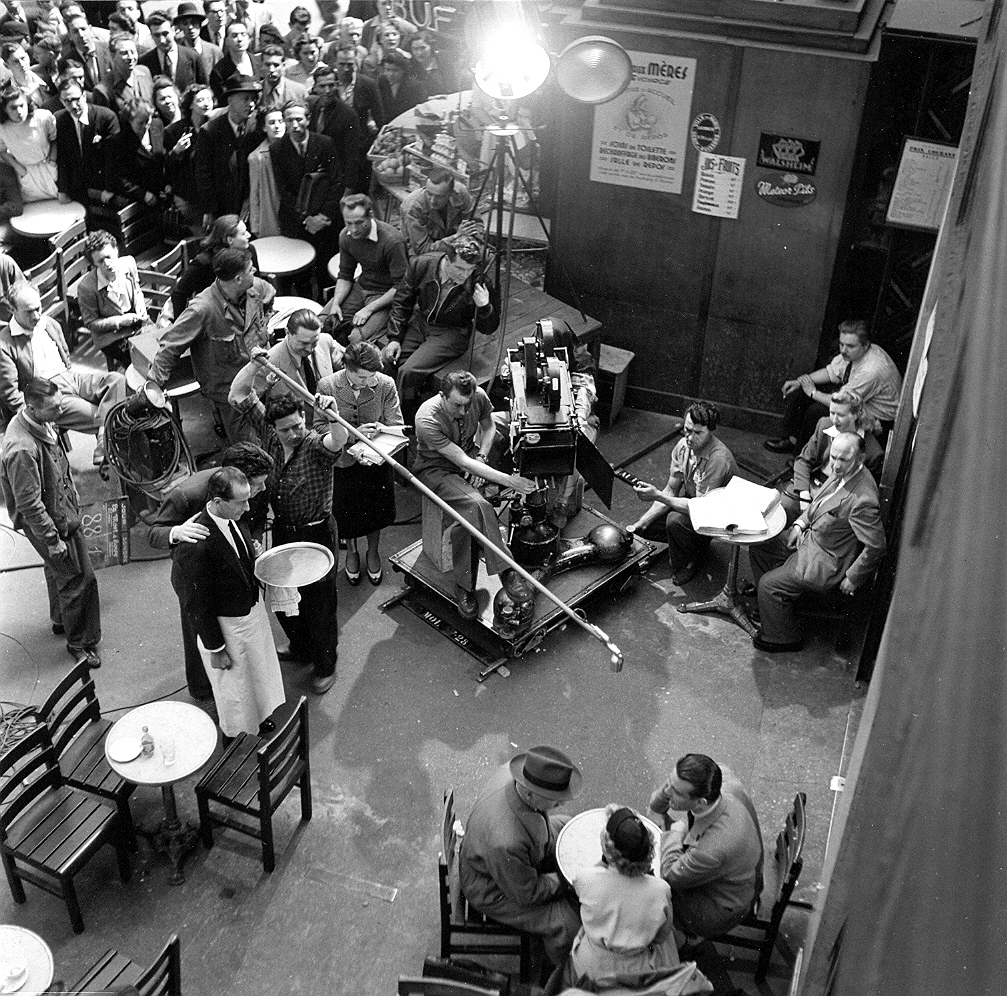 Production of 'Quai de Grenelle' in the Gare de l'Est in Paris. Spring, 1950 (close-up on filming)